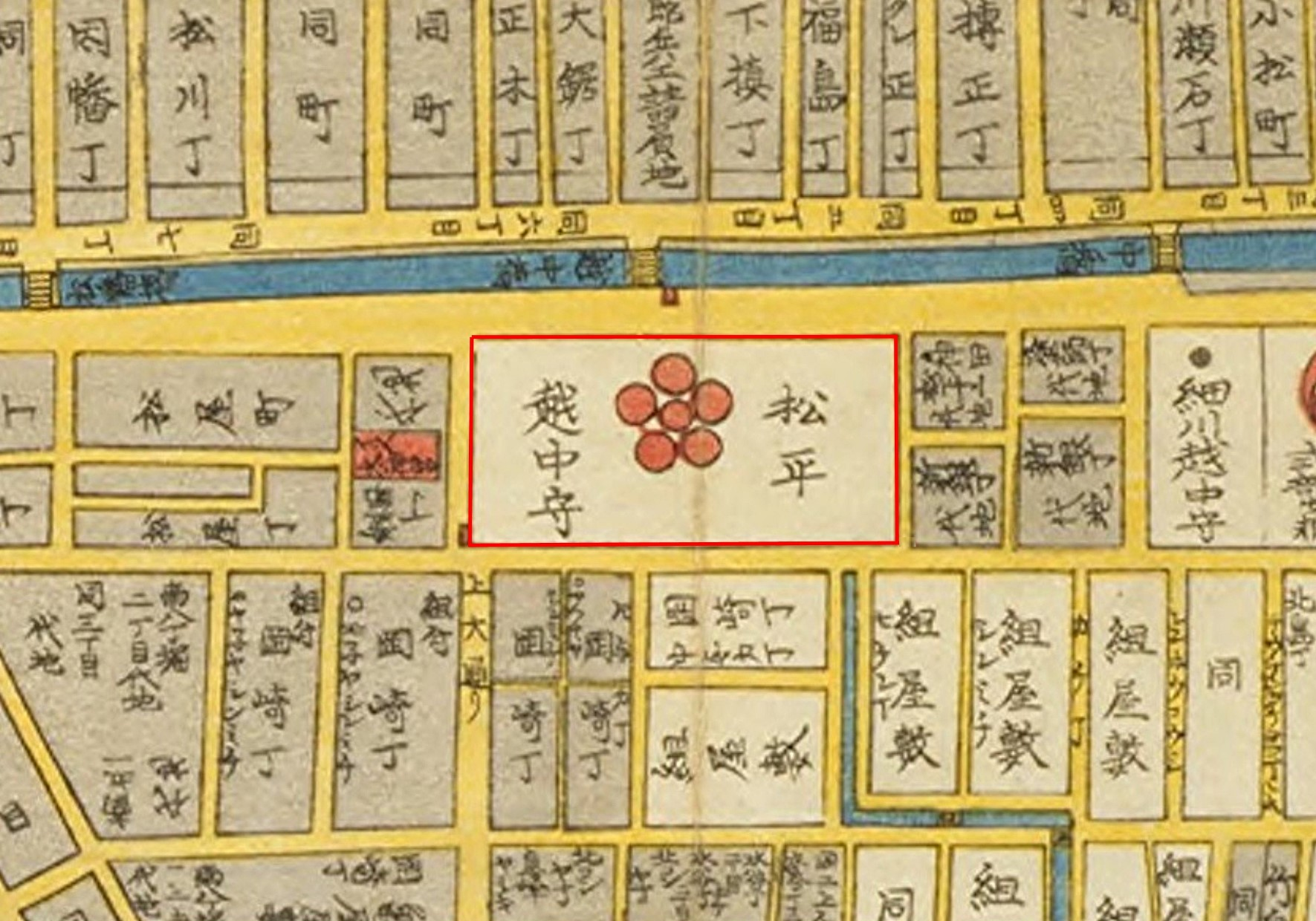 Residence of Kuwana-han at Edo